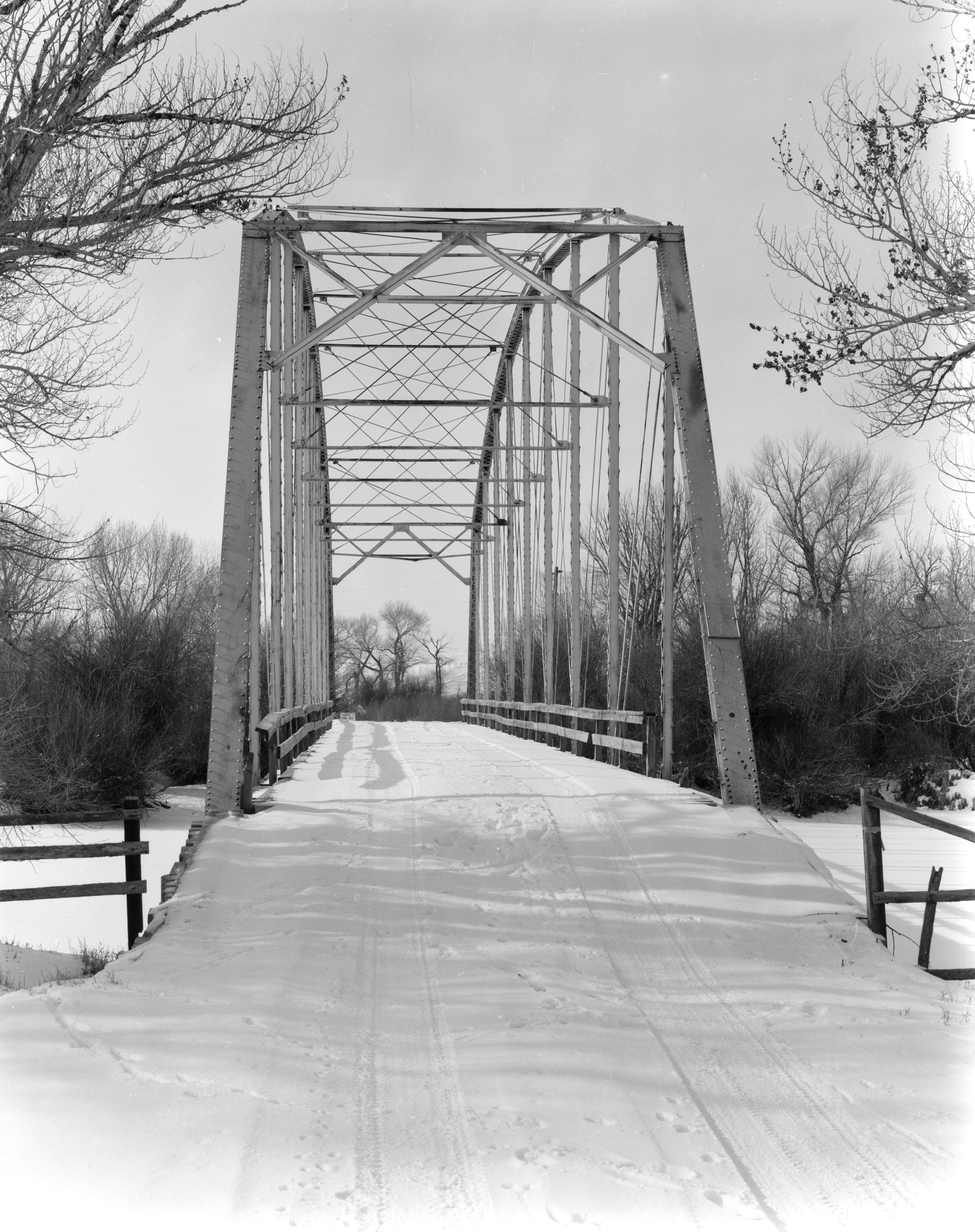 Eastern end of the DMJ Pick Bridge, which carries Pick Bridge Road (County Road CN6-508) over the North Platte River near Saratoga in Carbon County, Wyoming, United States. Built in 1909, this Parker through truss bridge is listed on the National Register of Historic Places.